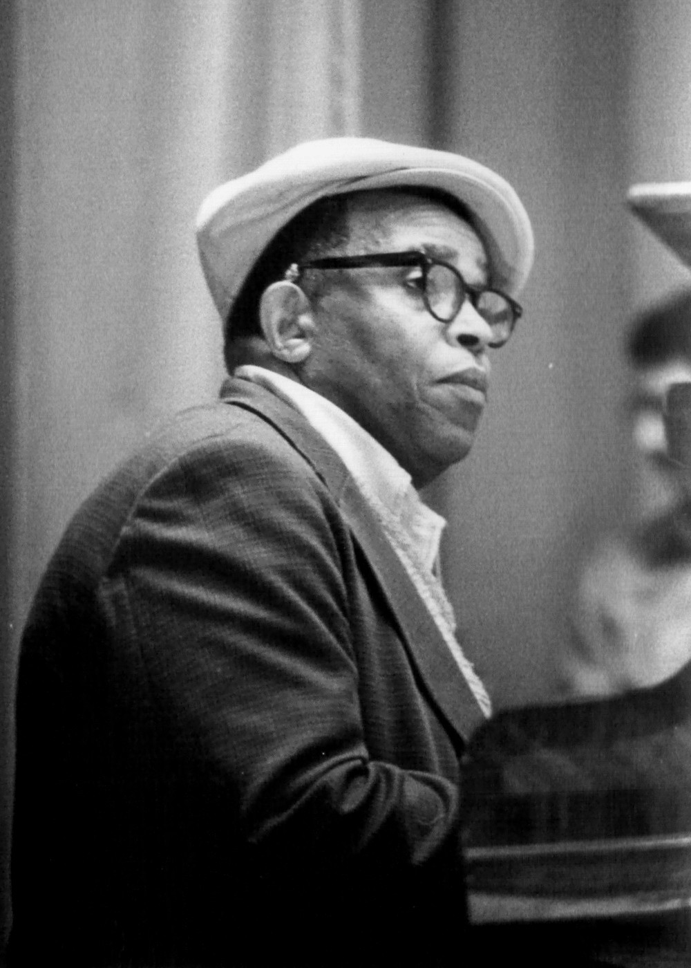 American blues and jazz pianist Lafayette Leake in Paris, France.